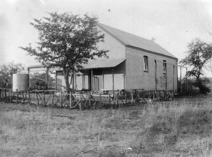 A photograph of the original school premises housed in the church hall.